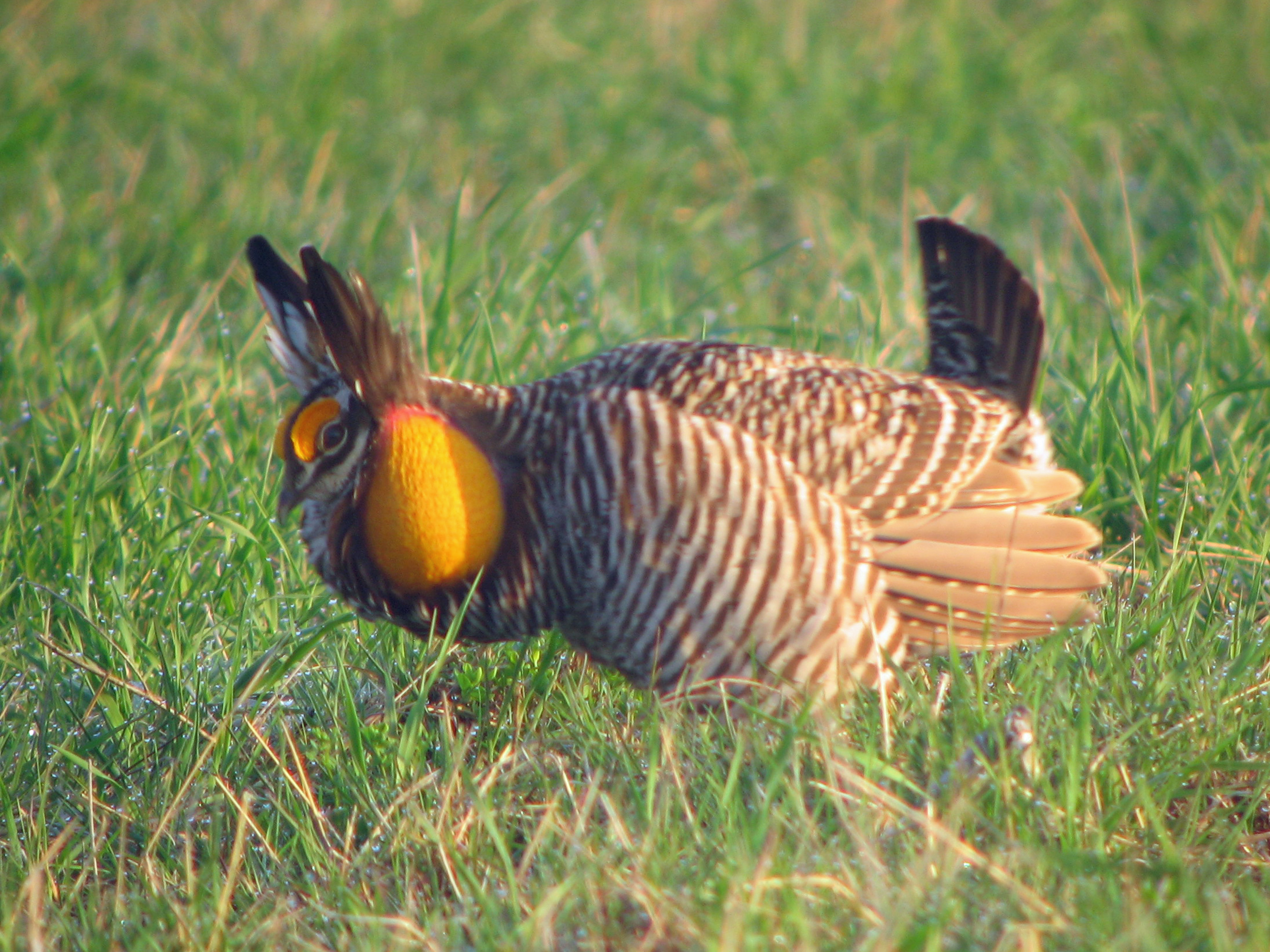 A male Greater Prairie Chicken displaying at a lek in Illinois, USA.